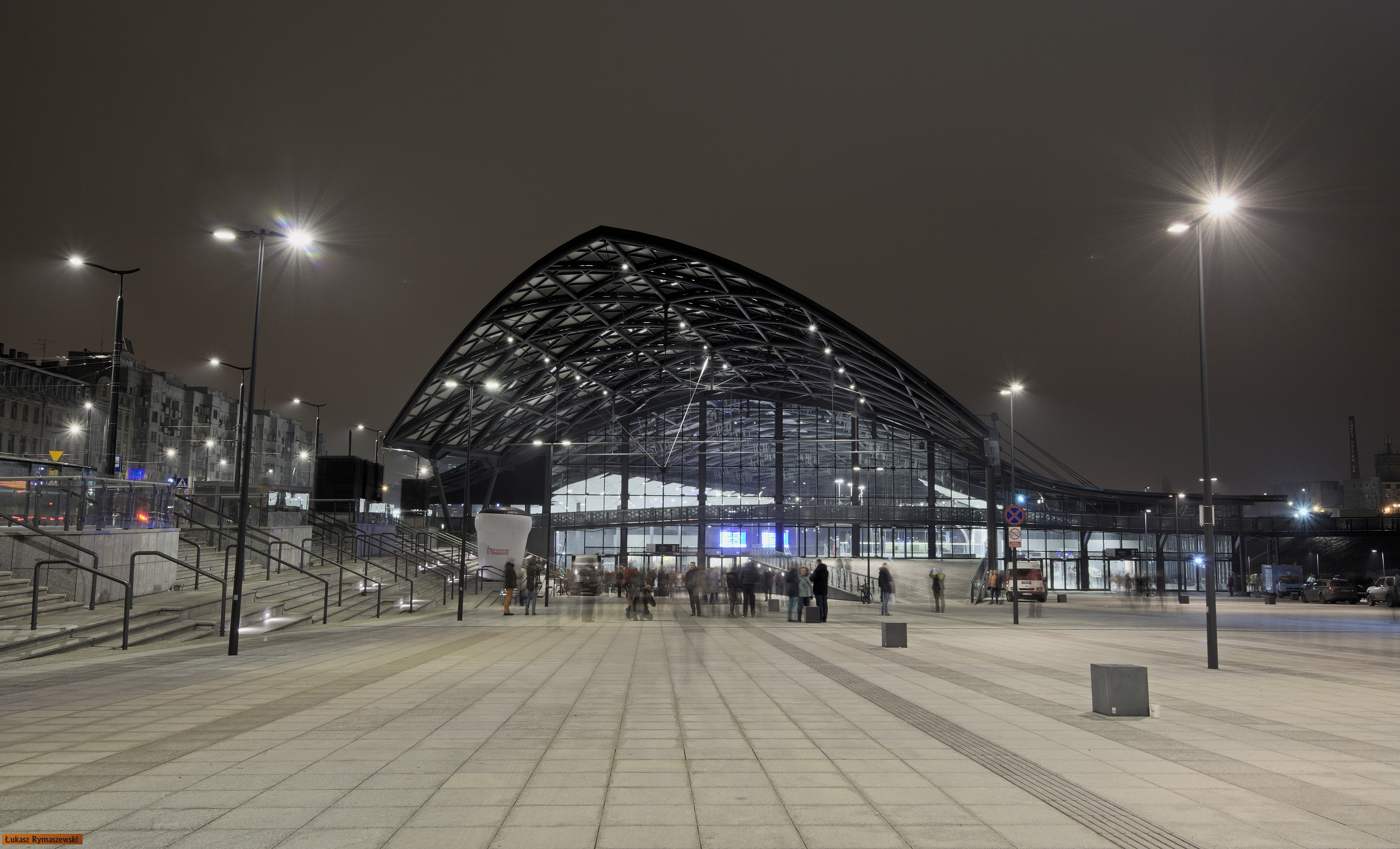 Center railway station in Lodz.